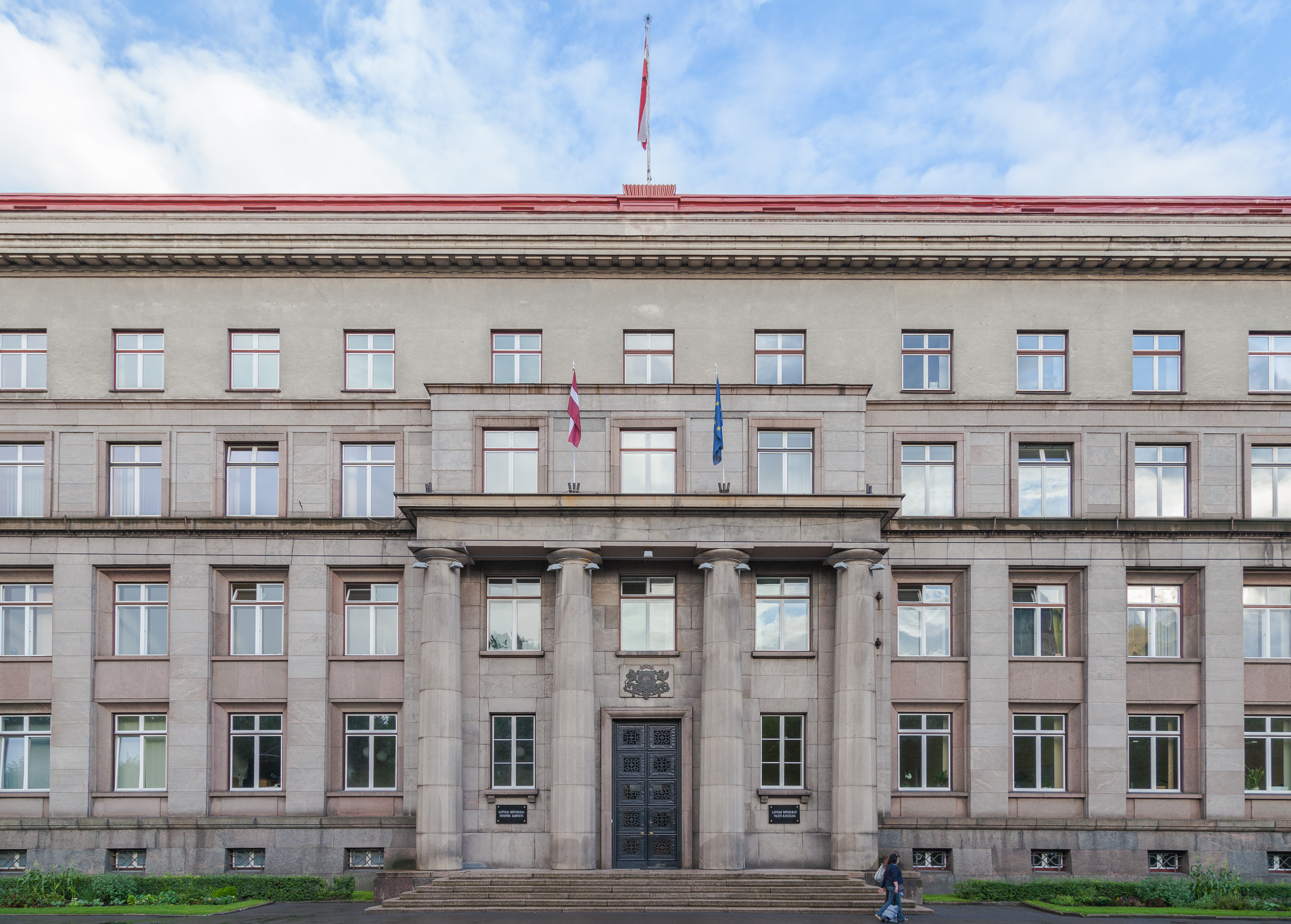 Latvian Ministeries Cabinet, Riga, Latvia